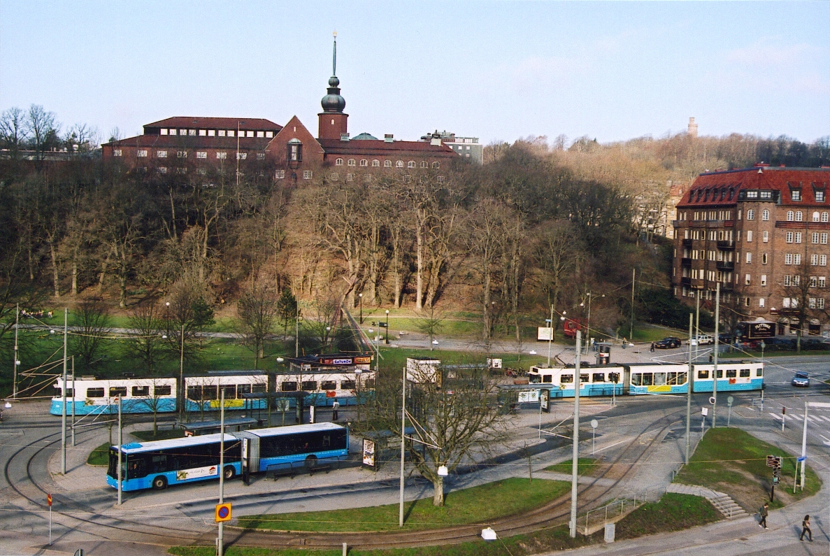 Turntrack for the tram at Linnéplatsen in Gothenburg, Sweden. The Museum of natural history is seen above.